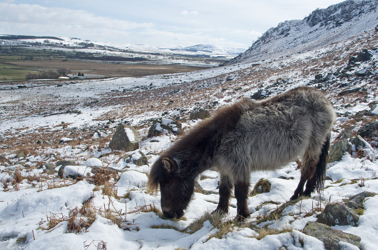 Fell pony searches for a meal in the desolate landscape near Mungrisdale in Cumbria, England on a cold winter's day. Fell ponies still roam wild but are an endangered species. They are hefted (ie, they don't wander too far!).